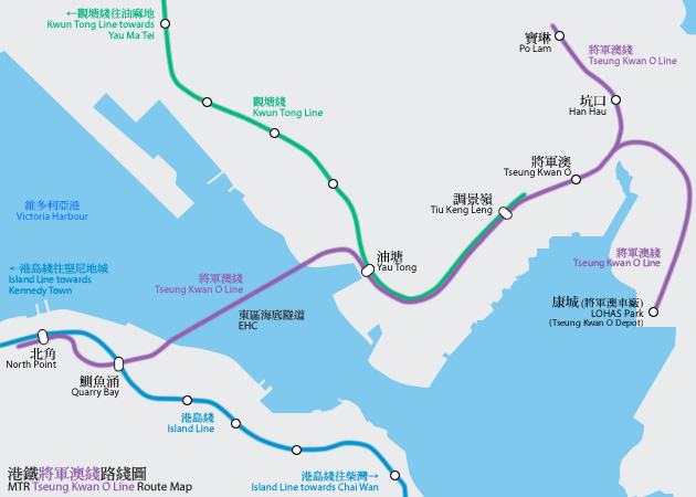 港鐵將軍澳綫路線圖（按真實地形繪畫） Geographically accurate map of the MTR Tseung Kwan O Line By Bus_28a, Mtrkwt